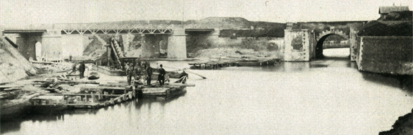 Maastricht, the Netherlands. Construction of a new port basin in the former fortifications in the northwest of Maastricht. Photograph by unknown photographer, c. 1875